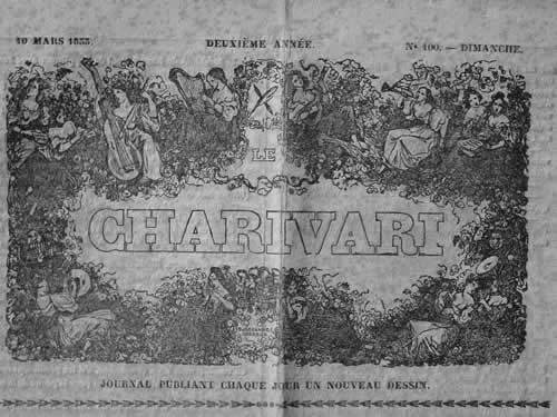 Le Charivari magazine front page from 1833 March 10 edition, number 100